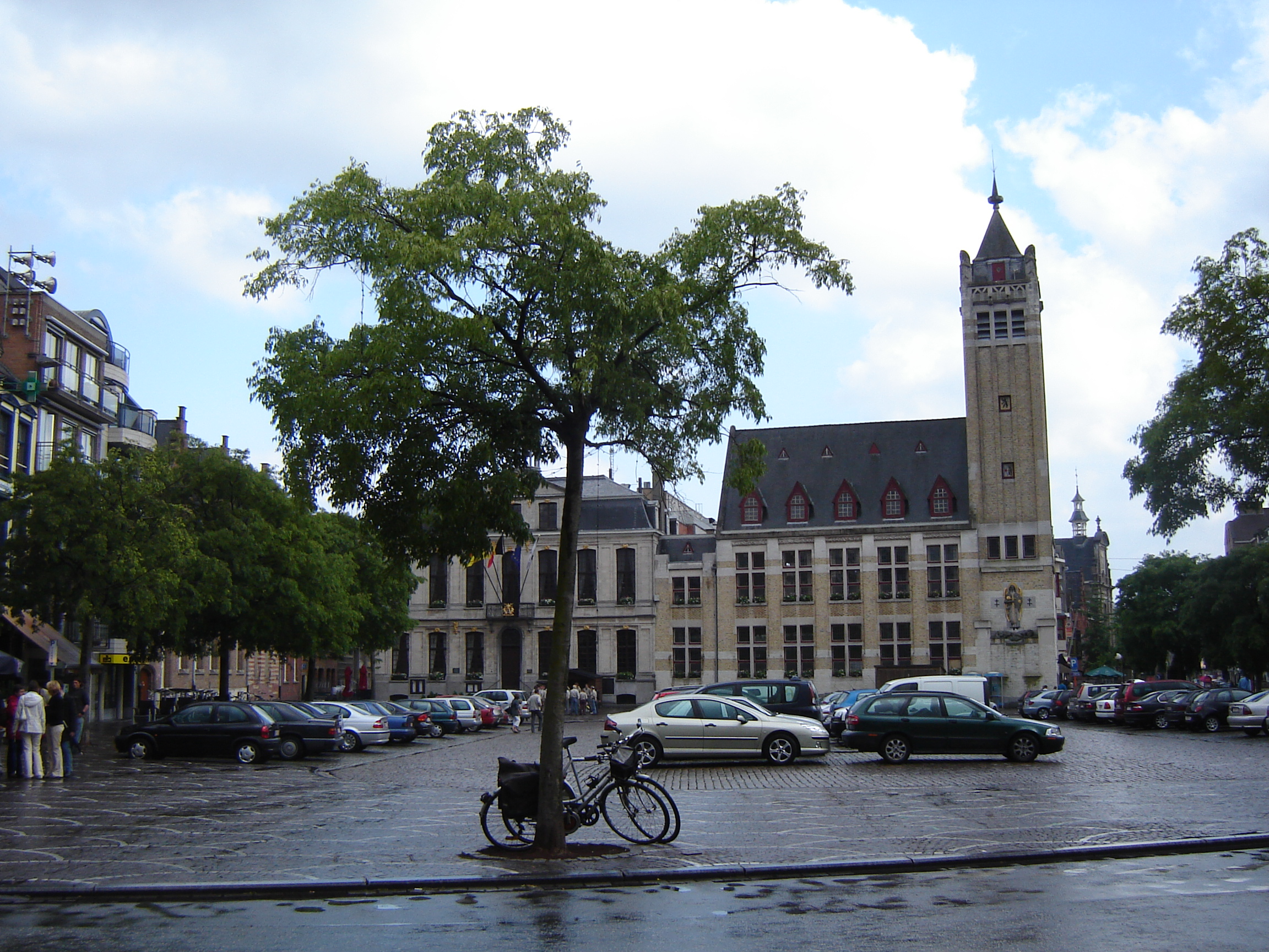 Grote Markt market square and city hall of Roeselare. Roeselare, West Flanders, Belgium